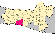 Map of Kebumen county, Central Java province, Indonesia